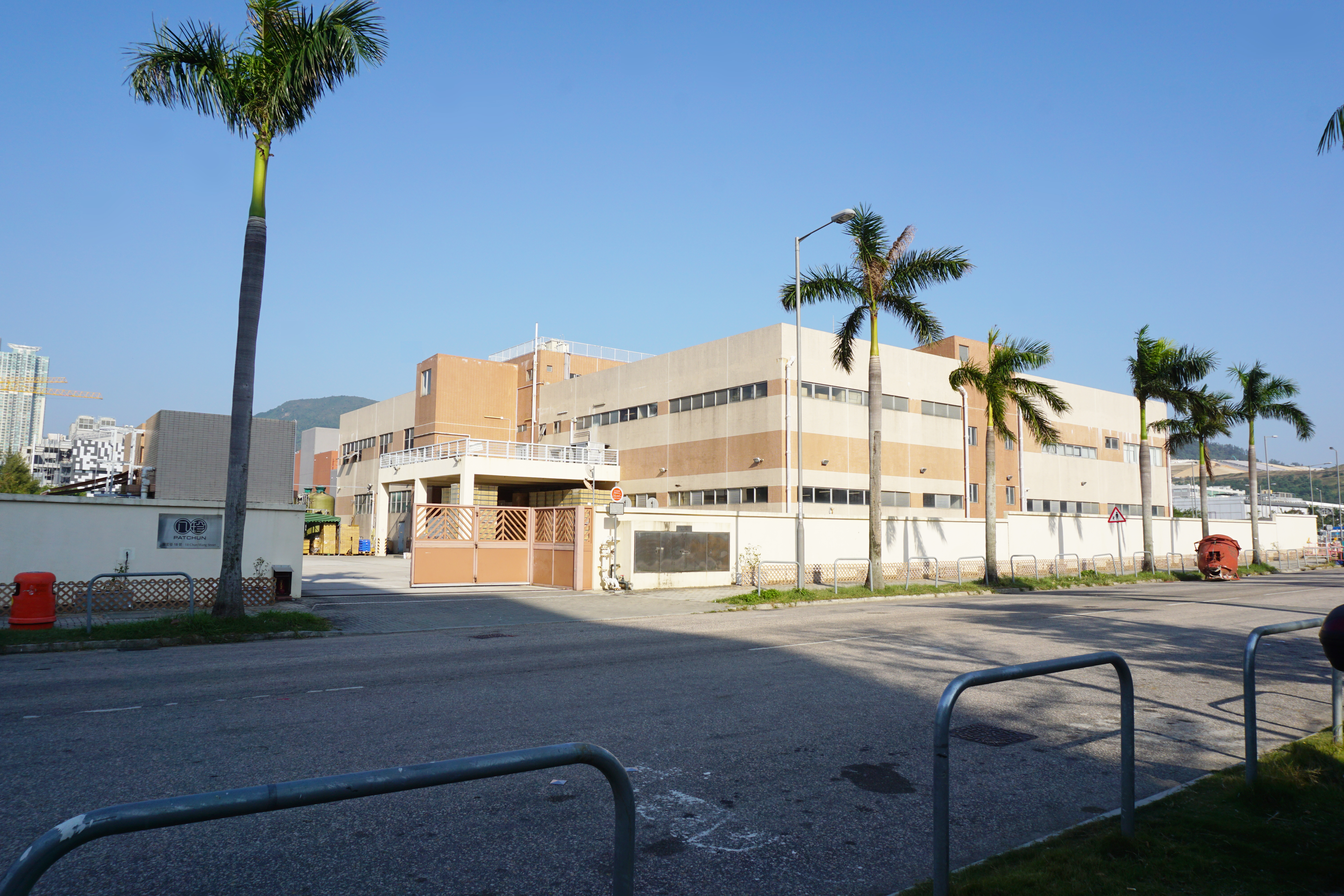 Pat Chun Building in Fat Tong Chau, Hong Kong.